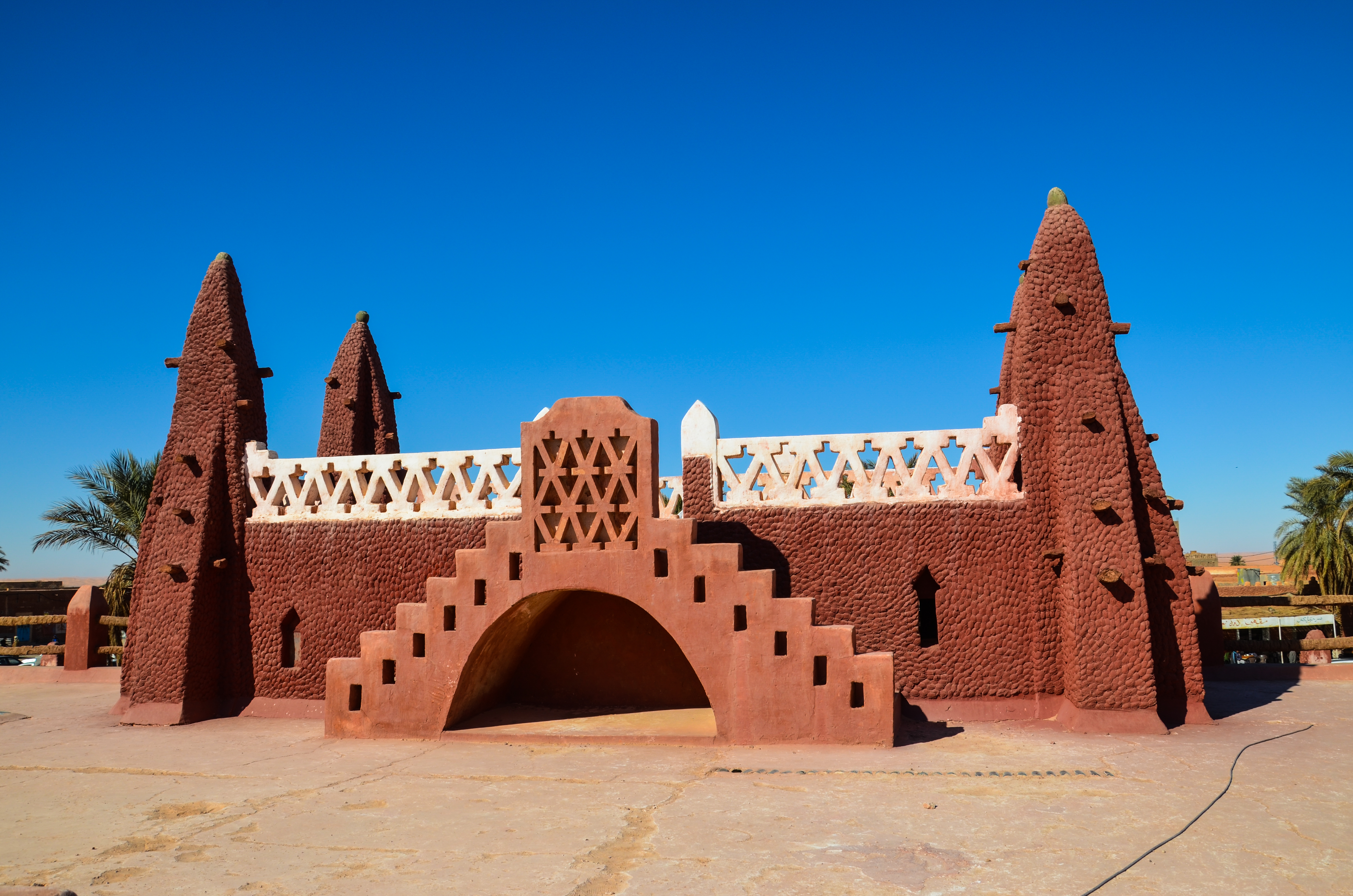 Terrace of the hotel Red Oasis of Timimoun, Algeria